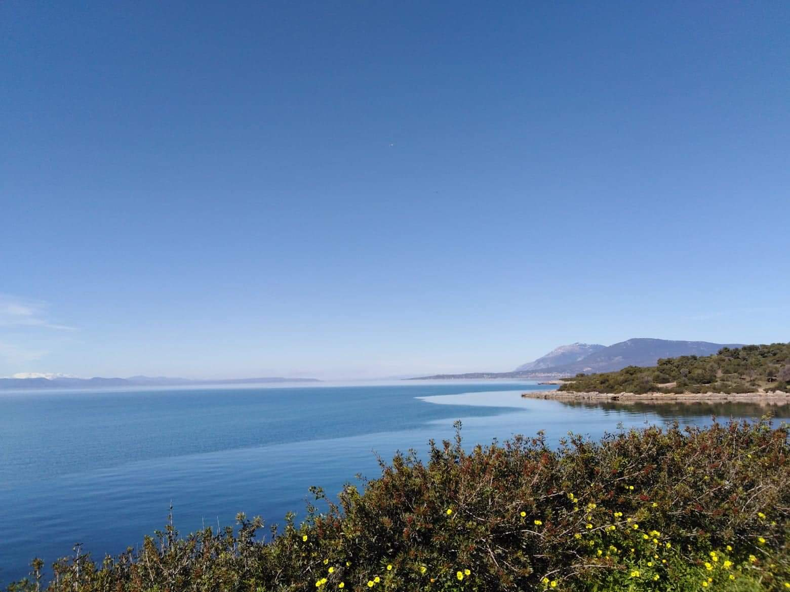 Η Νέα Αρτάκη είναι μια πόλη της Εύβοιας.